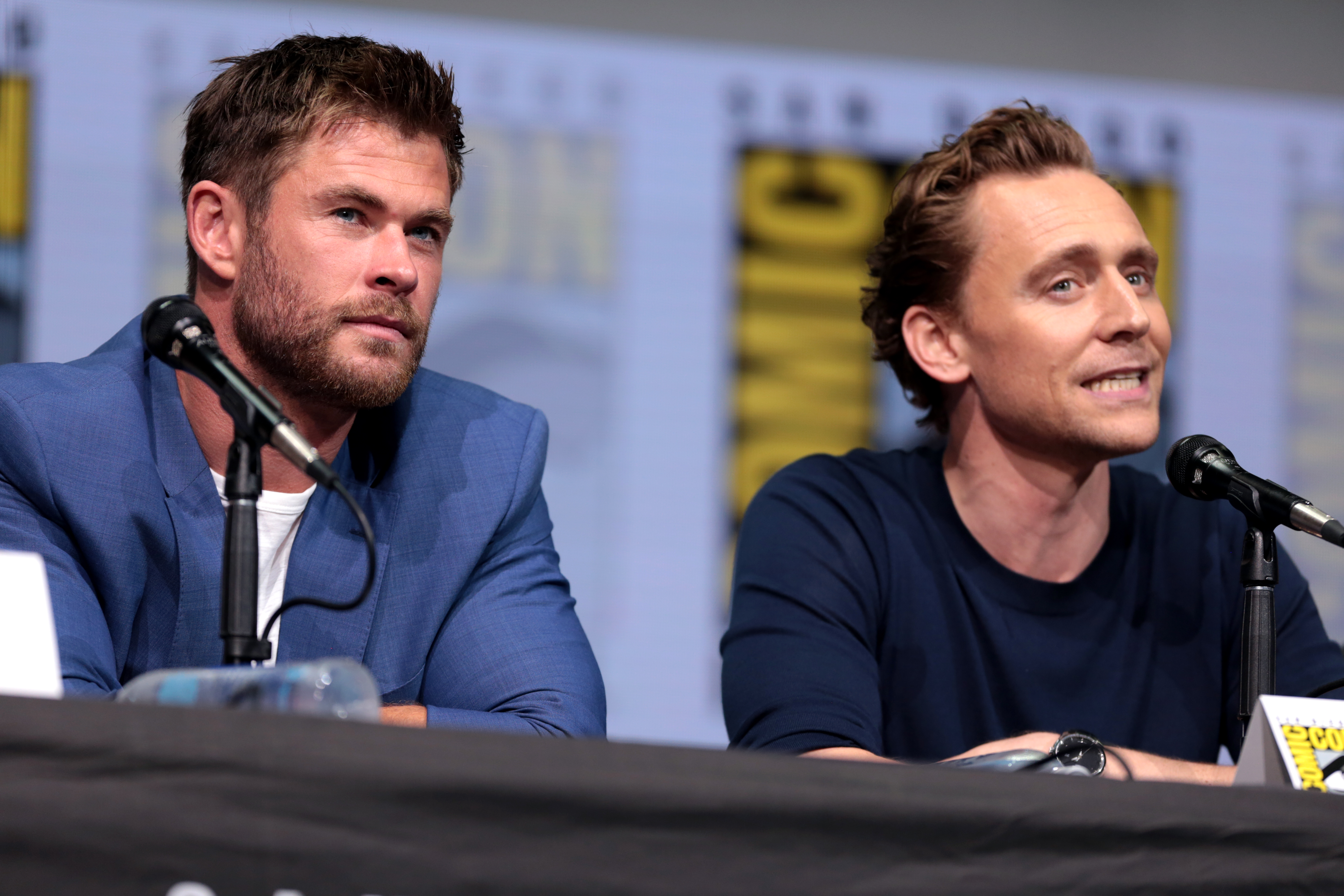 Chris Hemsworth and Tom Hiddleston speaking at the 2017 San Diego Comic Con International, for "Thor: Ragnarok", at the San Diego Convention Center in San Diego, California.